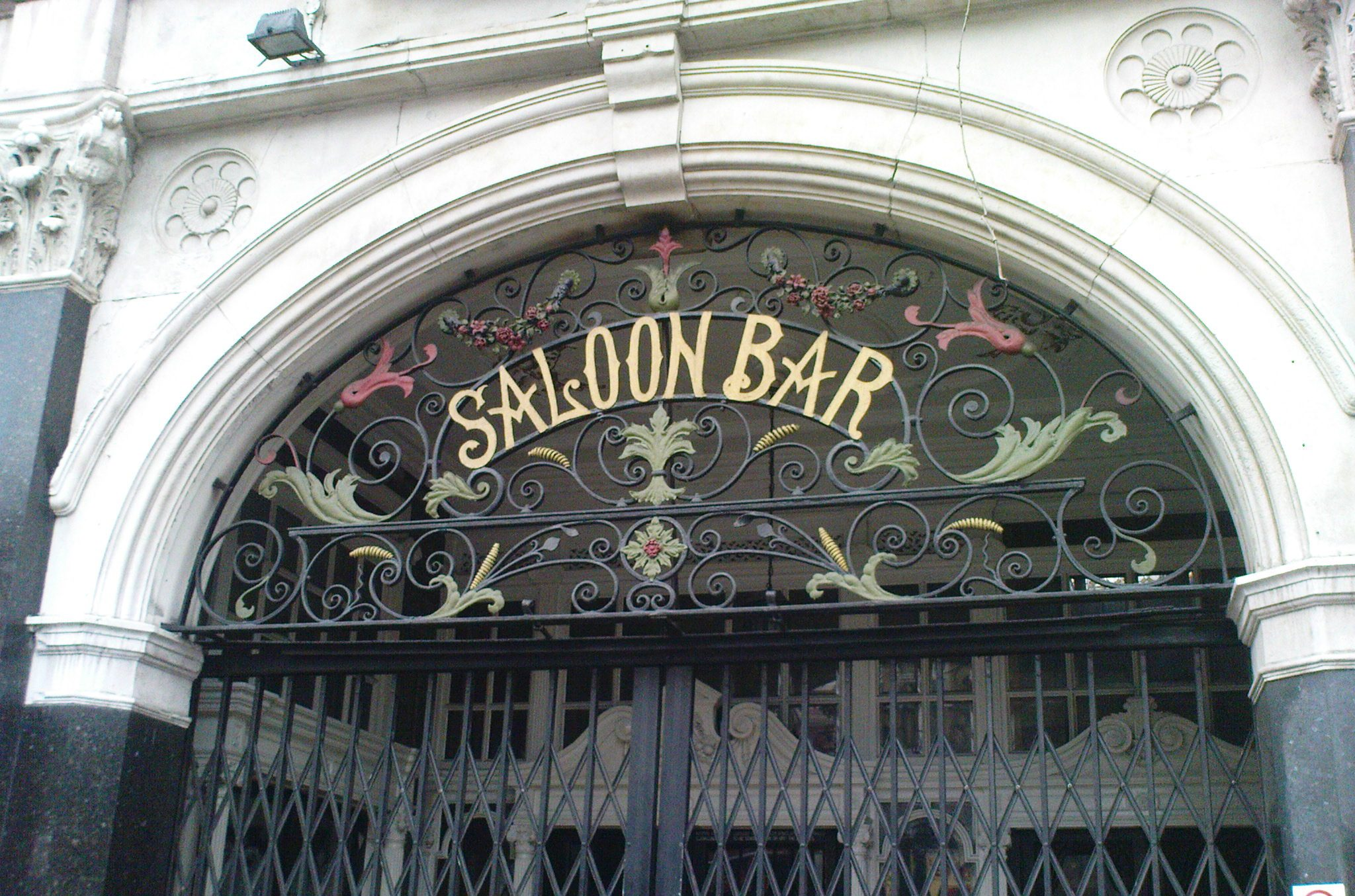 Entrance of Salisbury Pub in Harringay, London